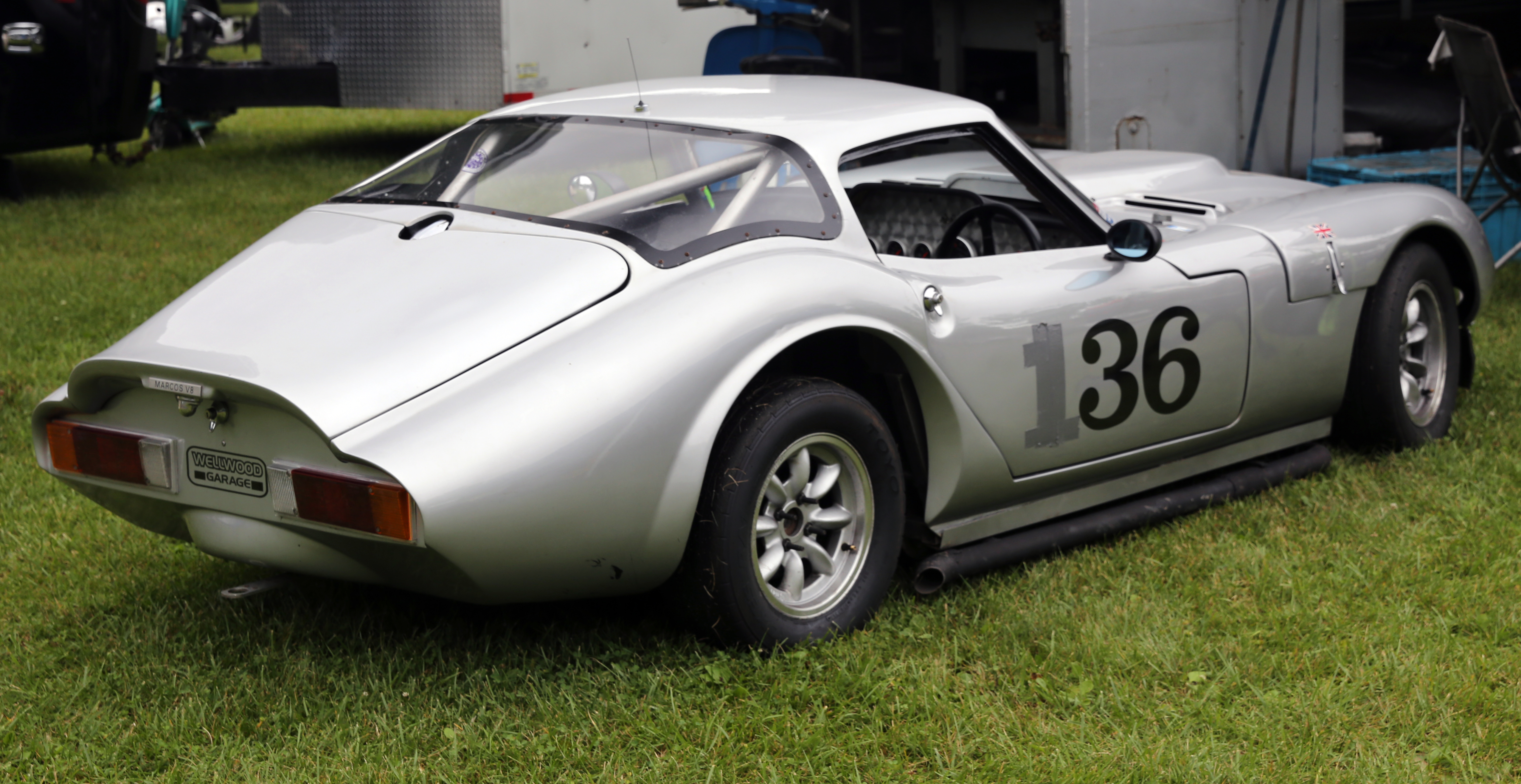 A 1967 Marcos 1600GT raced by Richard Brown. As indicated by the badging, this one has since had a V8 engine installed, necessitating a non-standard bonnet bulge. Ready to race at Lime Rock, 2014. Some sources refer to this car as an "early V8 prototype", dunno if this carries any truth.